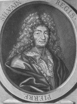 Portrait of Pierre Sylvain Régis (1632–1707), French philosopher.